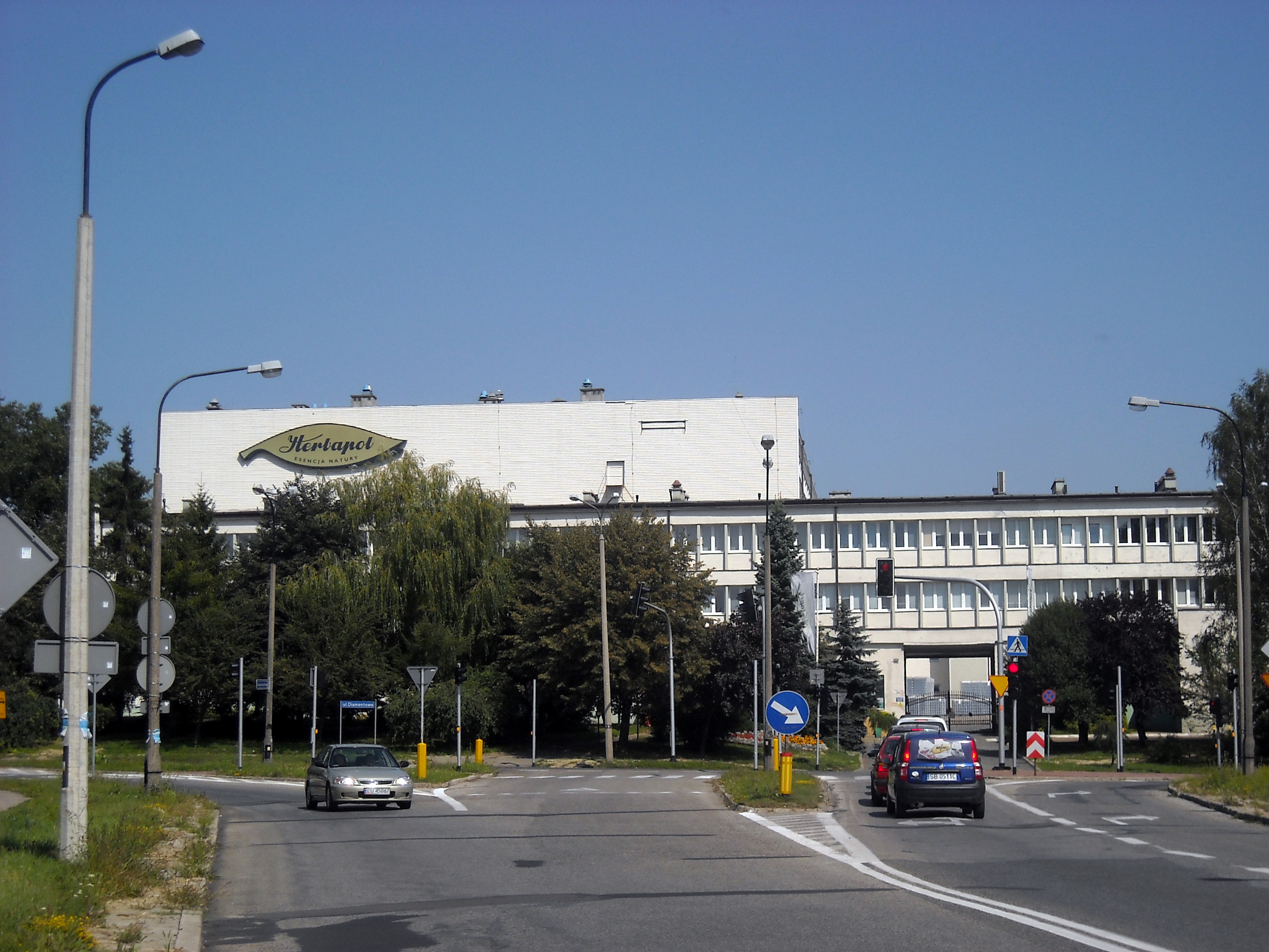 View from the Romera Street in Wrotków district at the Herbapol Lublina S.A. at the Diamentowa Street